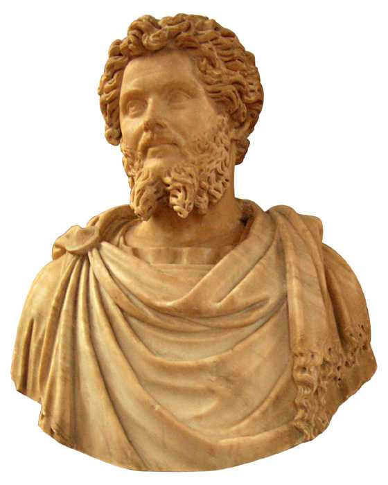 Armoured bust with paludamentum of Roman Emperor Septimius Severus (AD 193-211) of the Serapis type. Roman artwork. Said to be from the area of Herculaneum by Henry D'Escamps, Description des marbres antiques du musée Campana à Rome (1856), p.104.